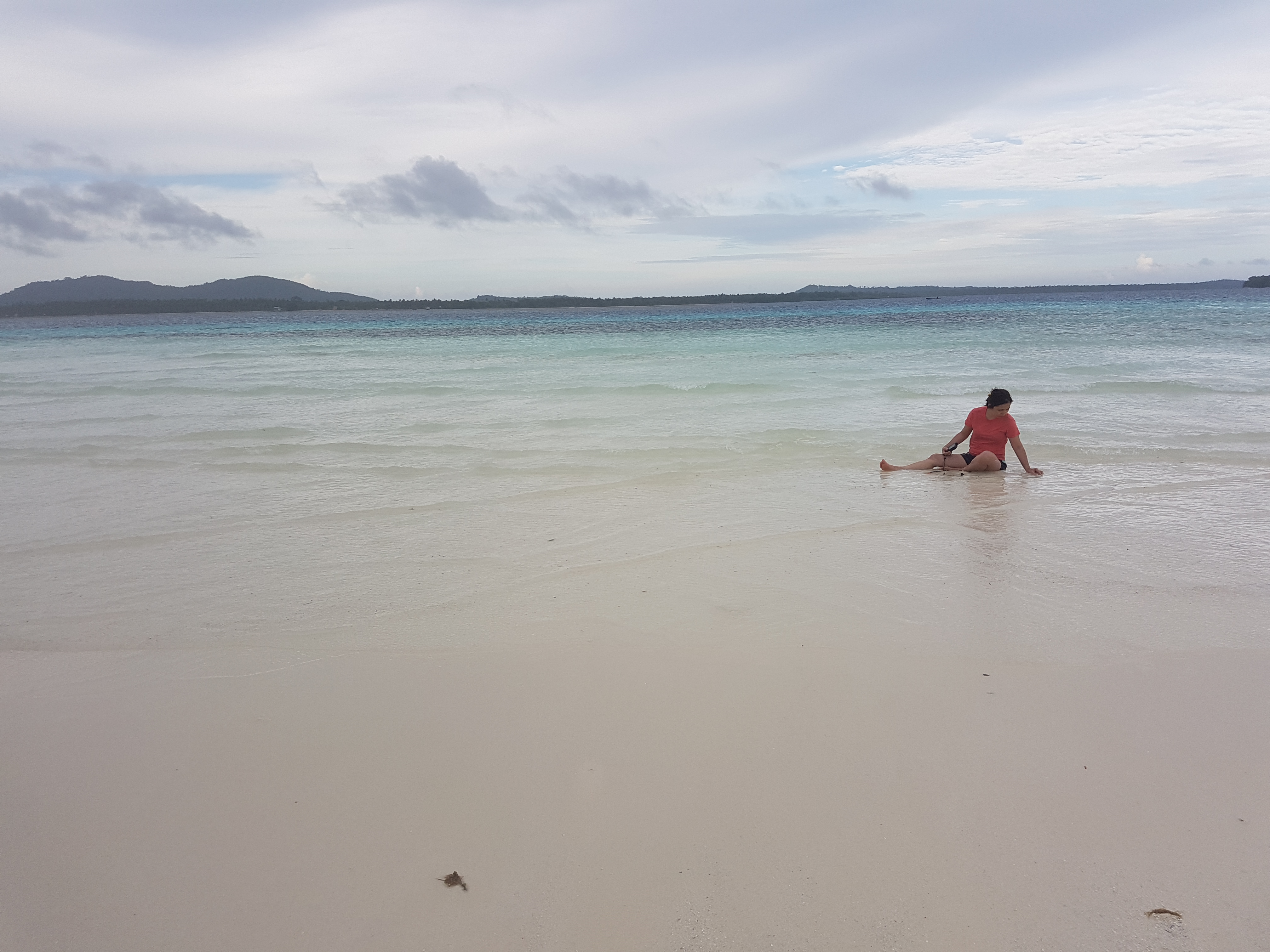 The BenLen Sandbar is located at the shallow areas of the southern portion of Candaraman Island in Balabac. Photo taken by Schadow1 Expeditions during its mapping expedition to Balabac, Palawan